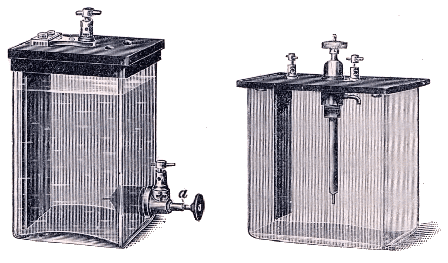 Wehnelt electrolytic interrupter